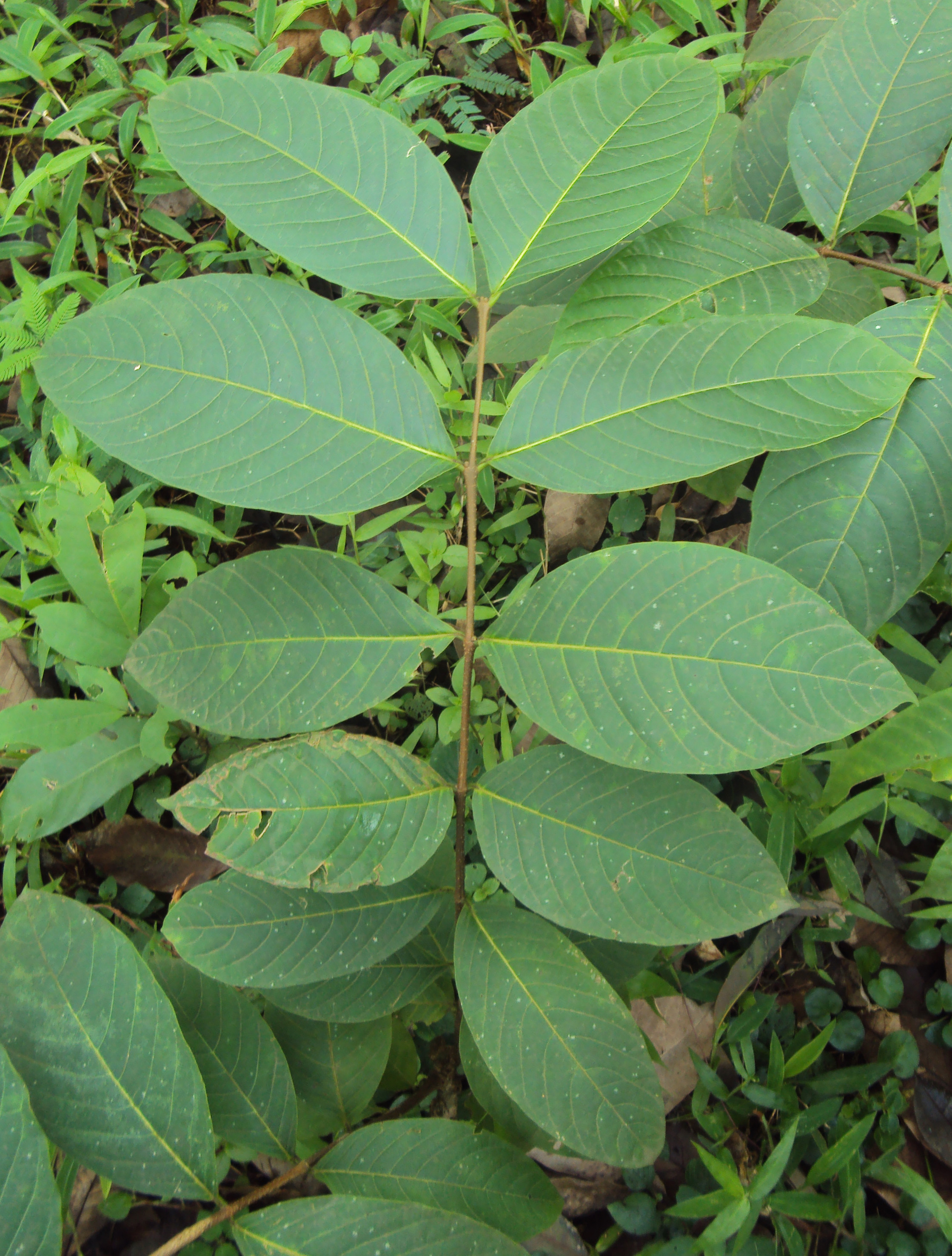 Holarrhena antidysenterica leaves - കുടകപ്പാല